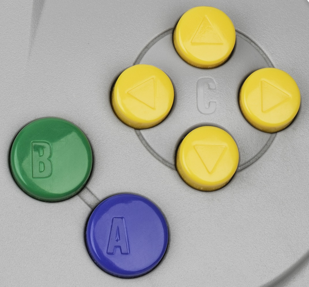 Nintendo 64 controller face buttons